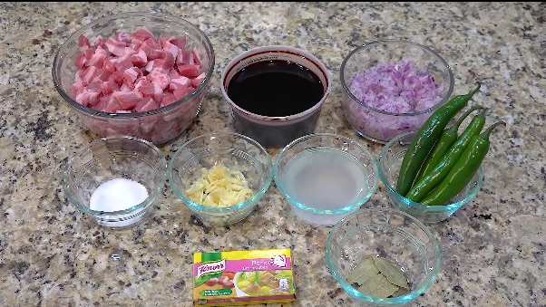 Pork, Pork Blood, Onions, Salt, Garlic, Vinegar, Chili, Knorr Seasoning, Bay Leaves